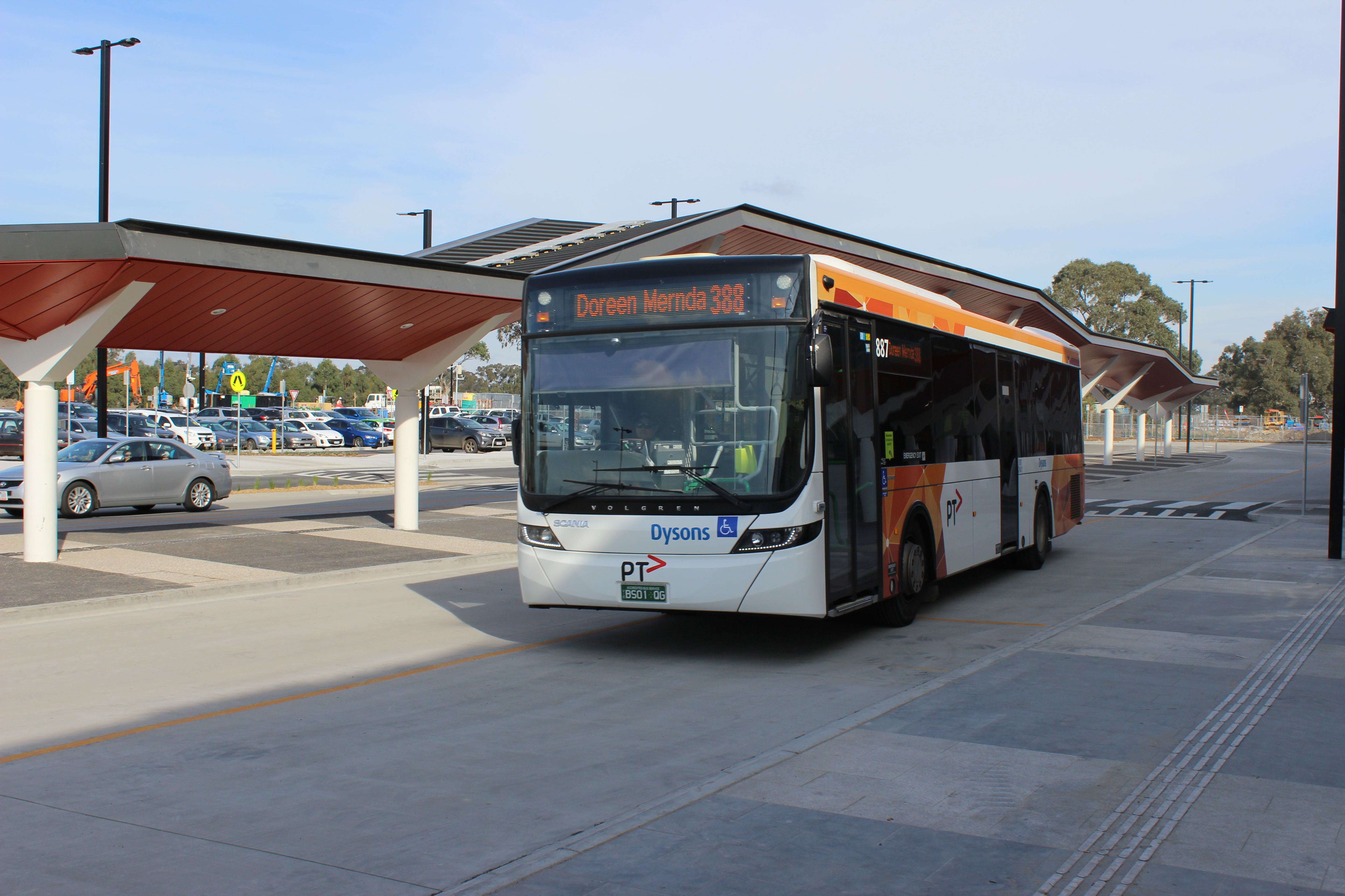 Dysons bus running route 388 at Mernda Station